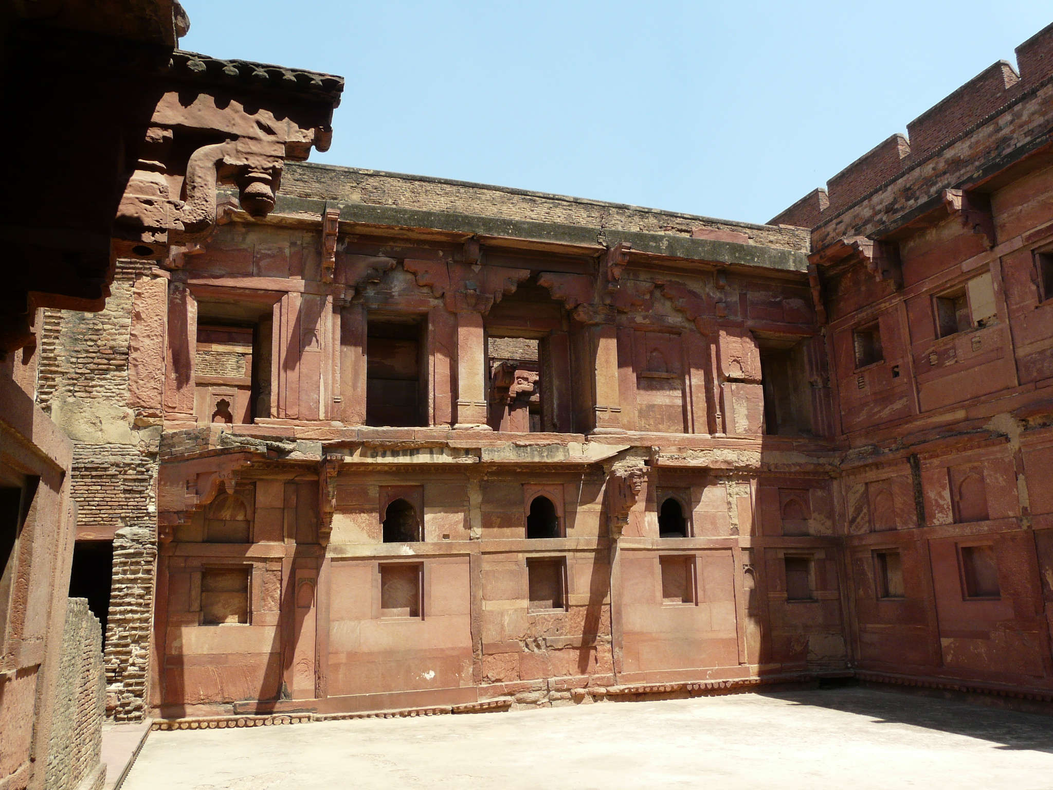 Akbari Mahal of Agra fort